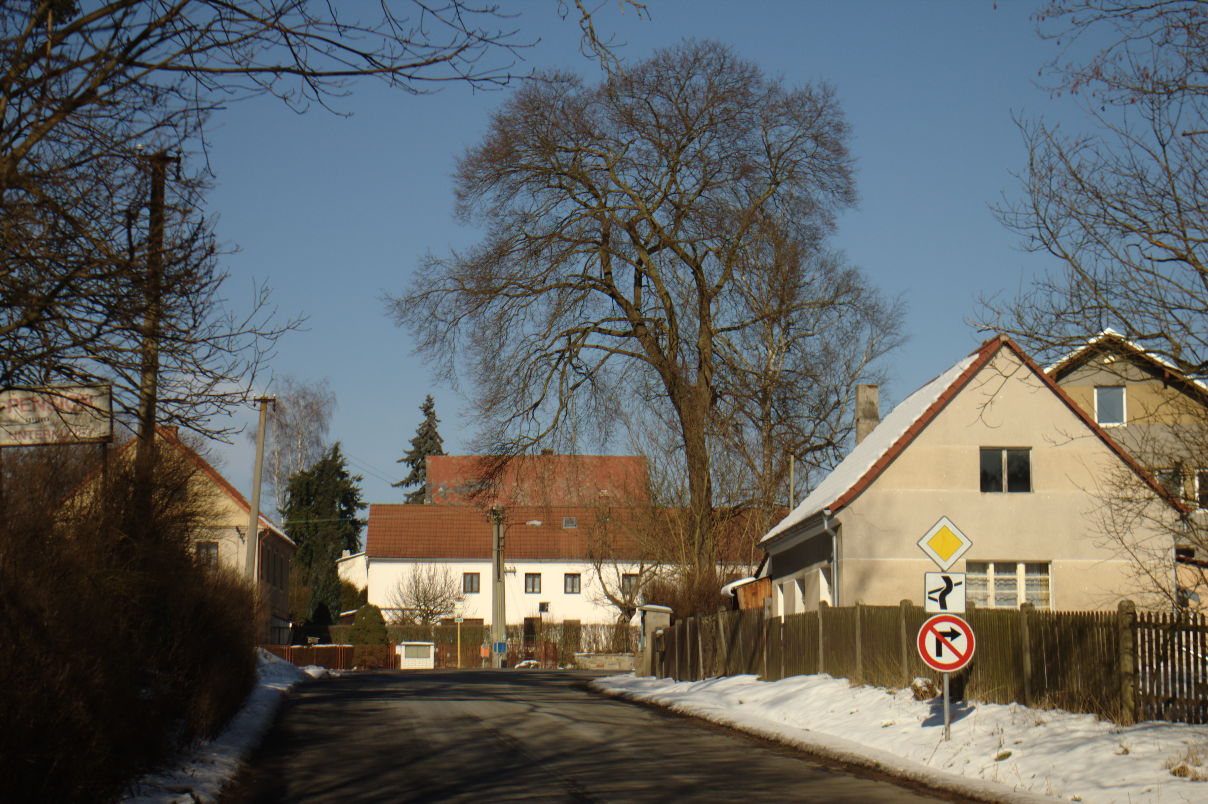 A common in the village of Horní Vysoké, Ústí Region, CZ